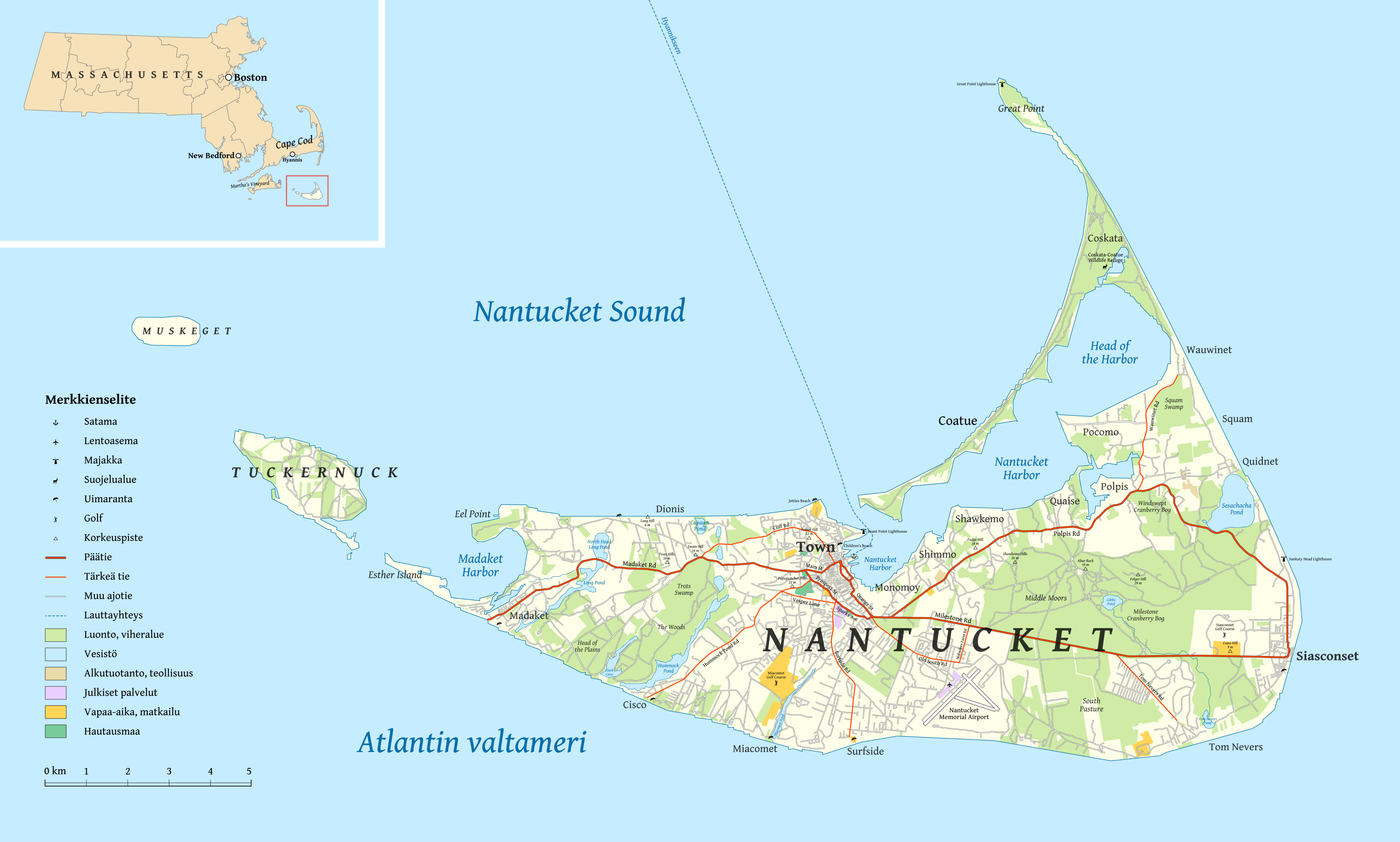 Map of the Nantucket Island and County in Finnish.